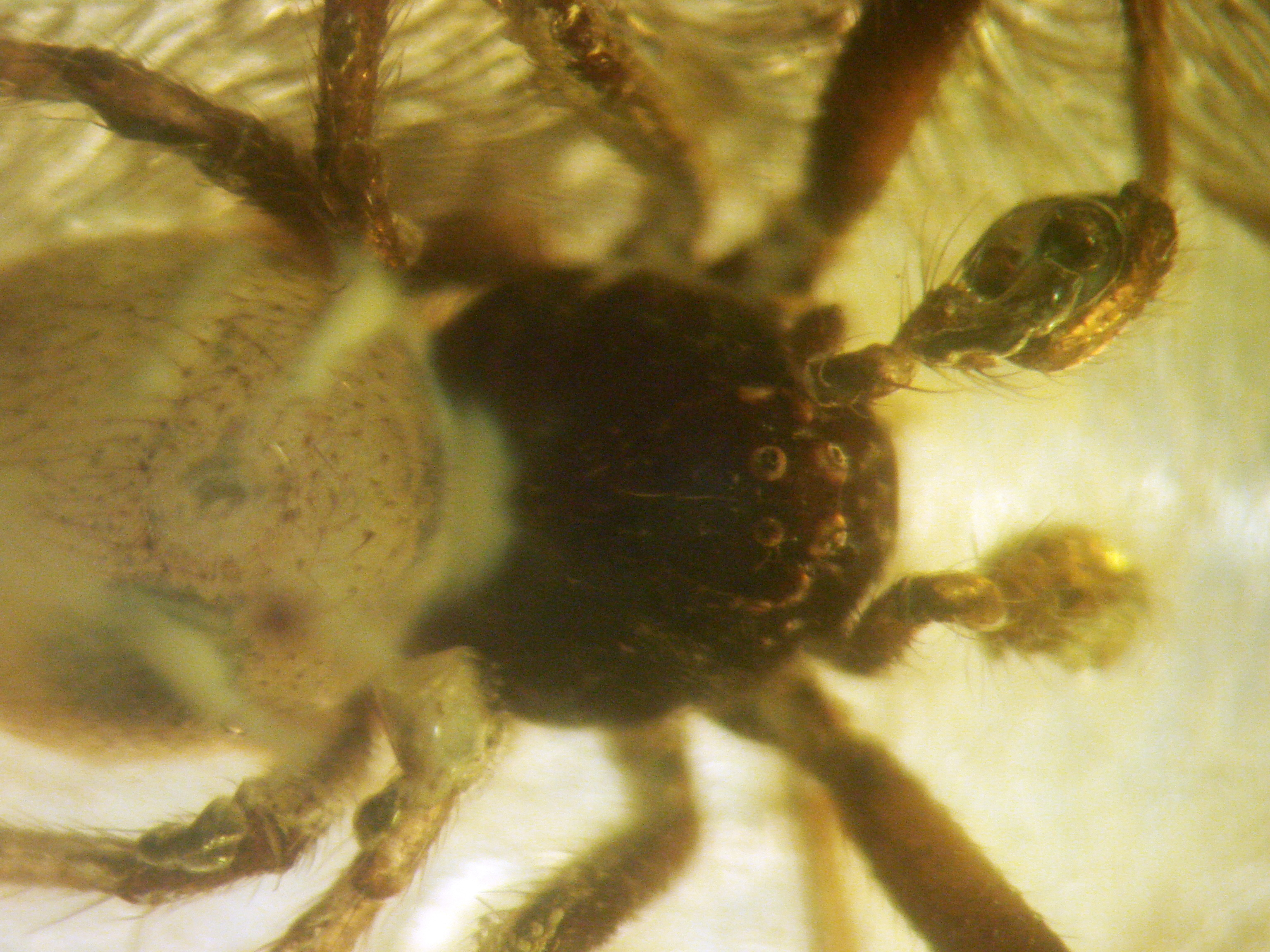 Baltic amber inclusions - 40-50 million years old - Spider (Arachnida, Araneae, ...?) The body is about 2 mm long. Close-up at the Head